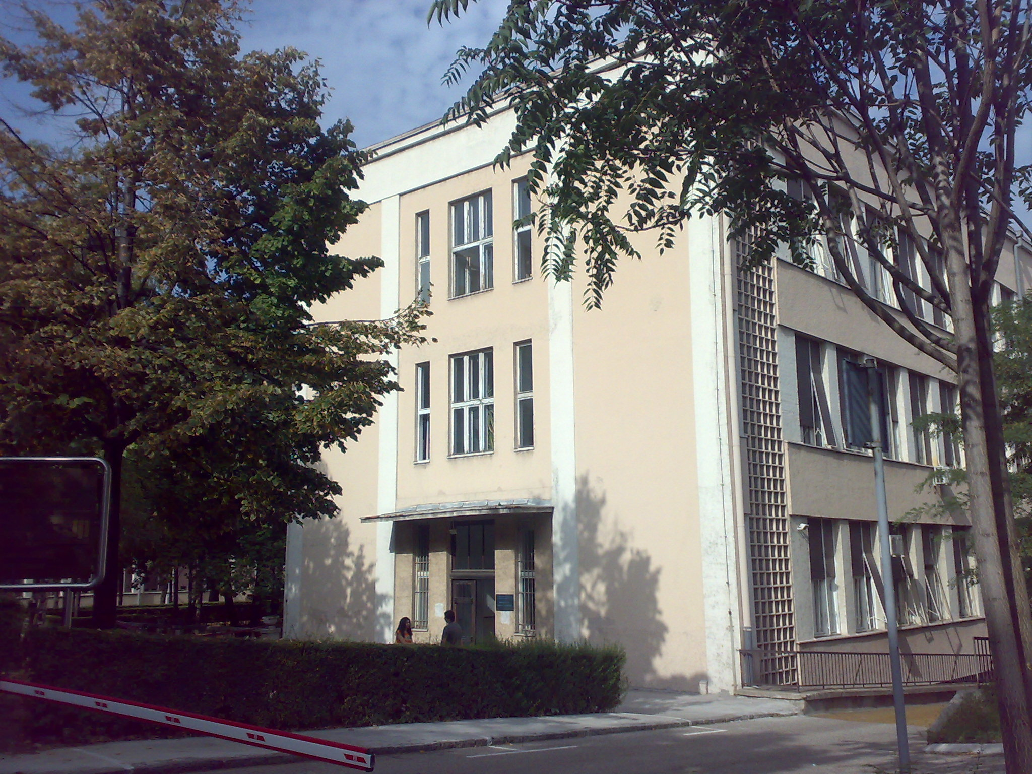 University of Belgrad, Faculty of Medicine